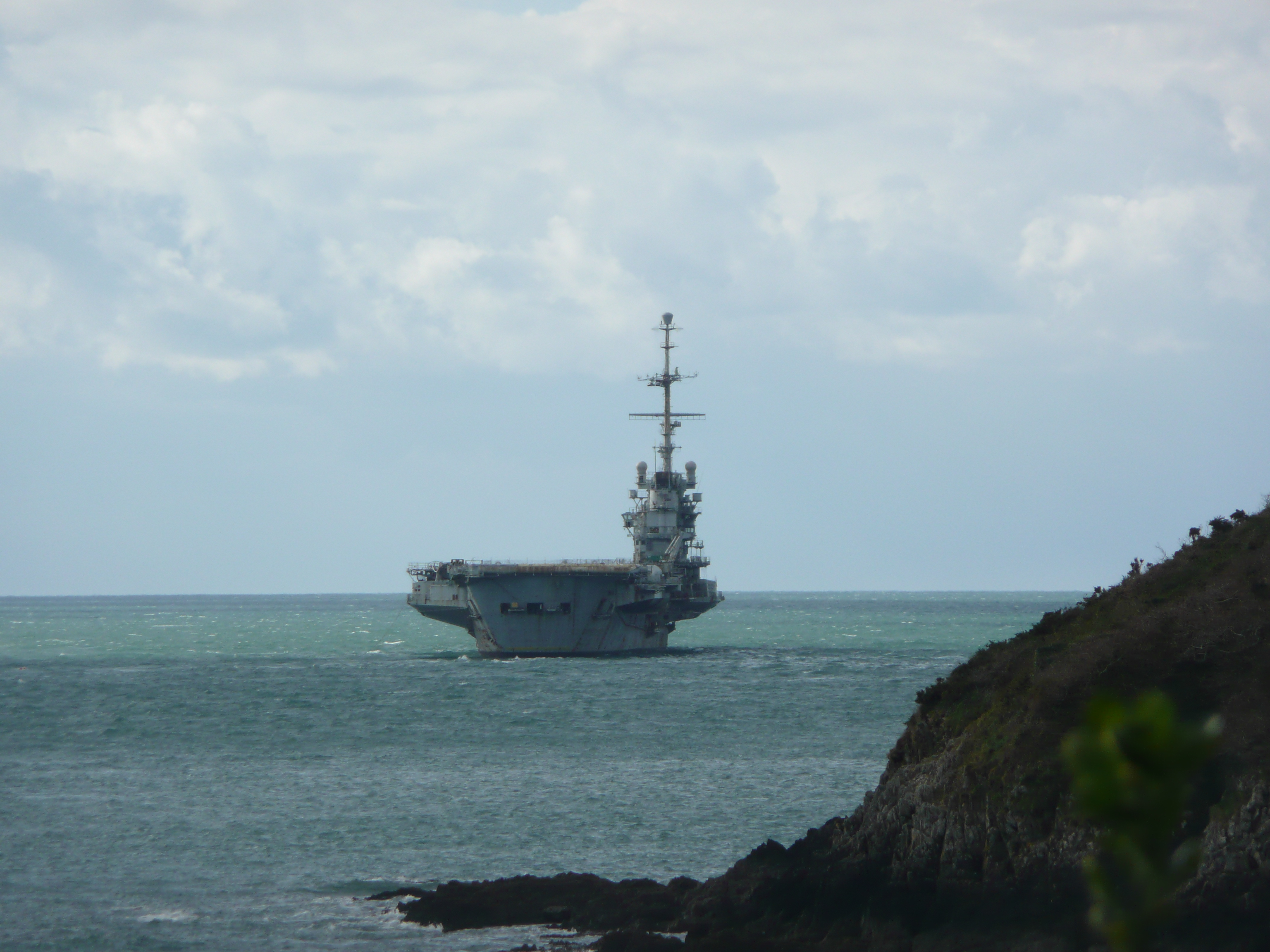 Clemenceau Aircraft carrier leaving Brest for her very last trip...